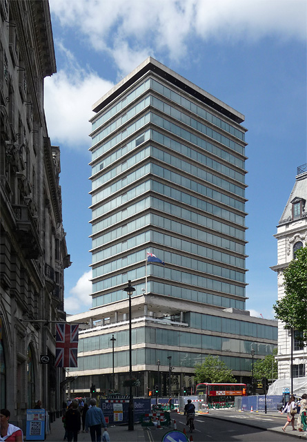 A much feted Modernist building, one of the early examples of a tower resting on a broad, low podium (1957-63). It has a reinforced concrete frame clad in Portland stone, except for the ground floor which is clad in black Belgian marble recessed behind stainless-steel-clad pilotis. Between the floors of the tower are slight stone projections. The architects were Robert Matthew, Johnson-Marshall & Partners. It now belongs to a very exclusive club of post-war buildings: Grade II listed. Fittingly, it houses the New Zealand High Commission.